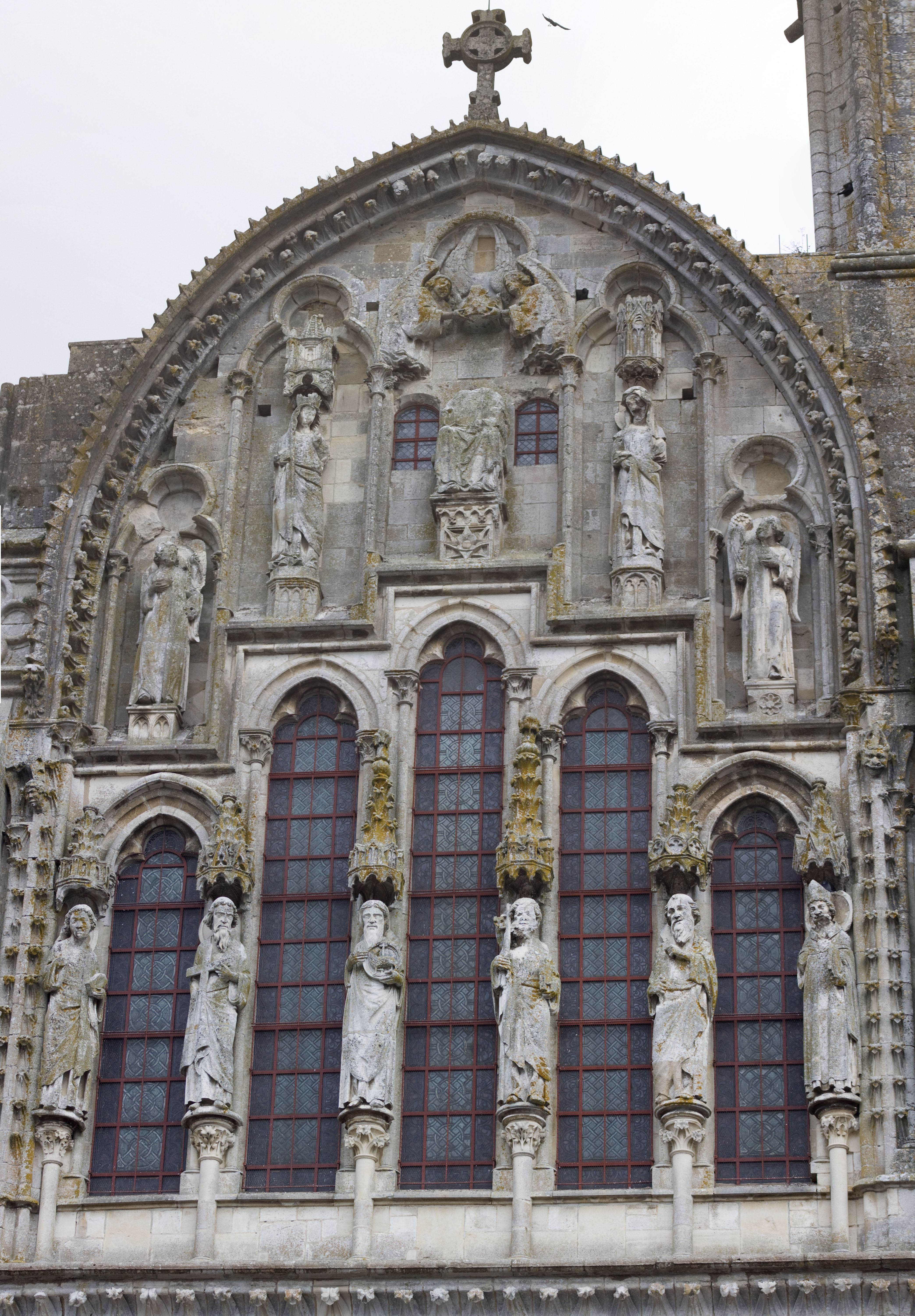 Frontispiece of the west facade. ( Basilique Saint-Mary-Magdeleine. Vézelay, (Burgundy, France ).